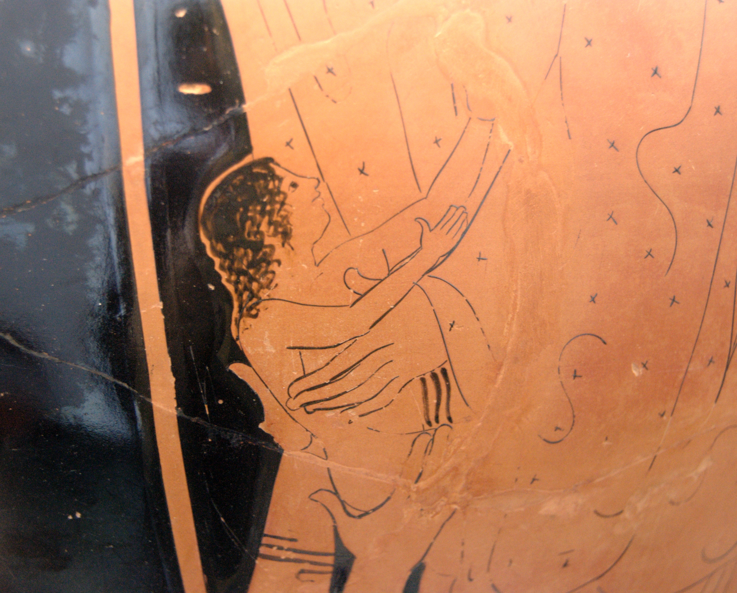 Birth of Erichtonius: Athena receives the baby Erichthonius from the hands of the earthmother Gaia. Detail of the side A of an Attic red-figure stamnos, 470–460 BC.